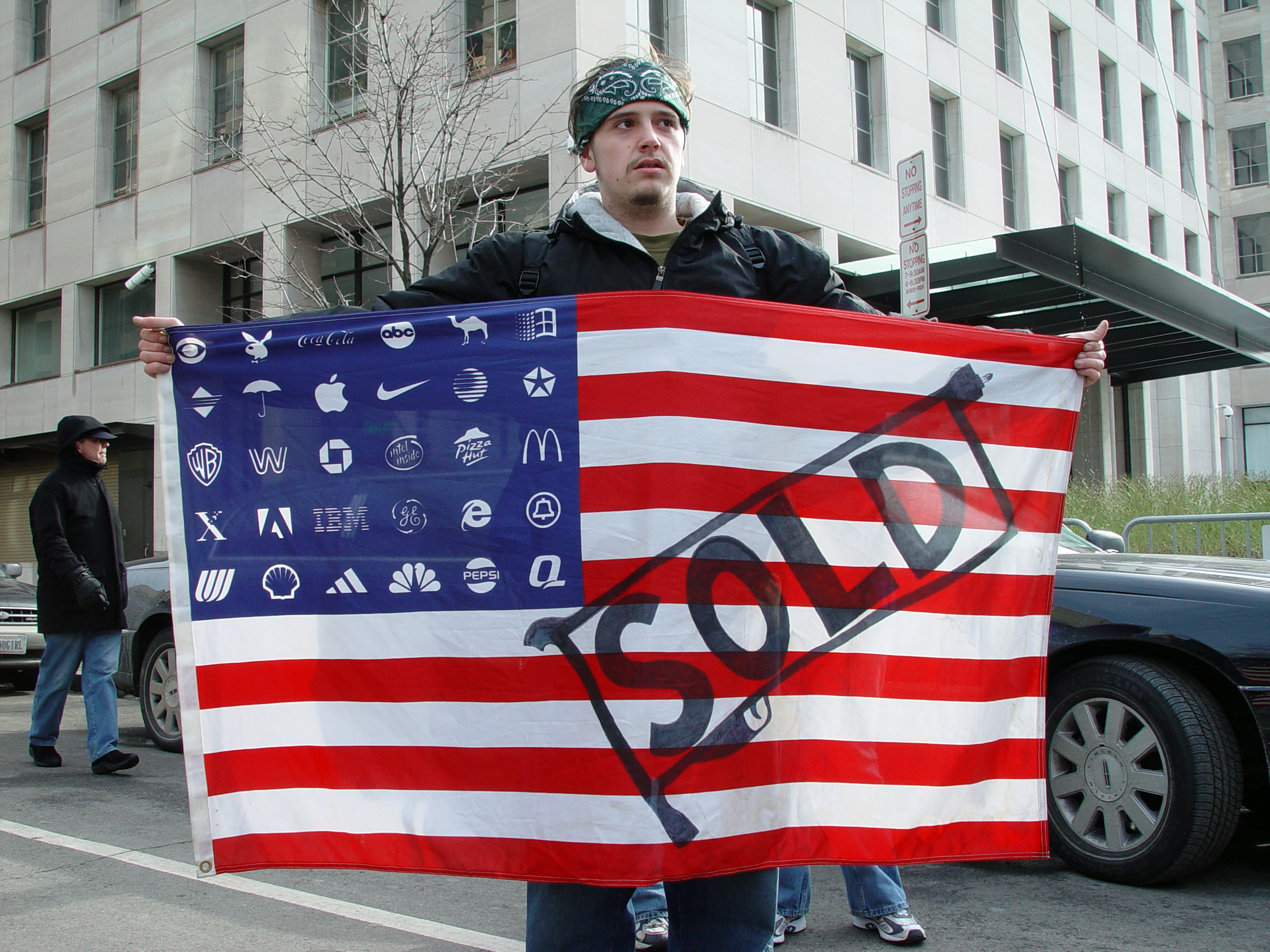 Protester holding Adbuster's Corporate American Flag at Bush's 2nd inauguration, Washington DC.